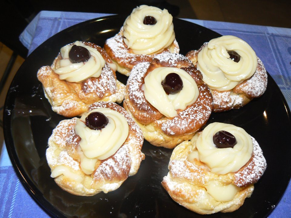 Zeppole are typical dessert made in Southern of Italy for celebrating the Saint Joseph's Day.